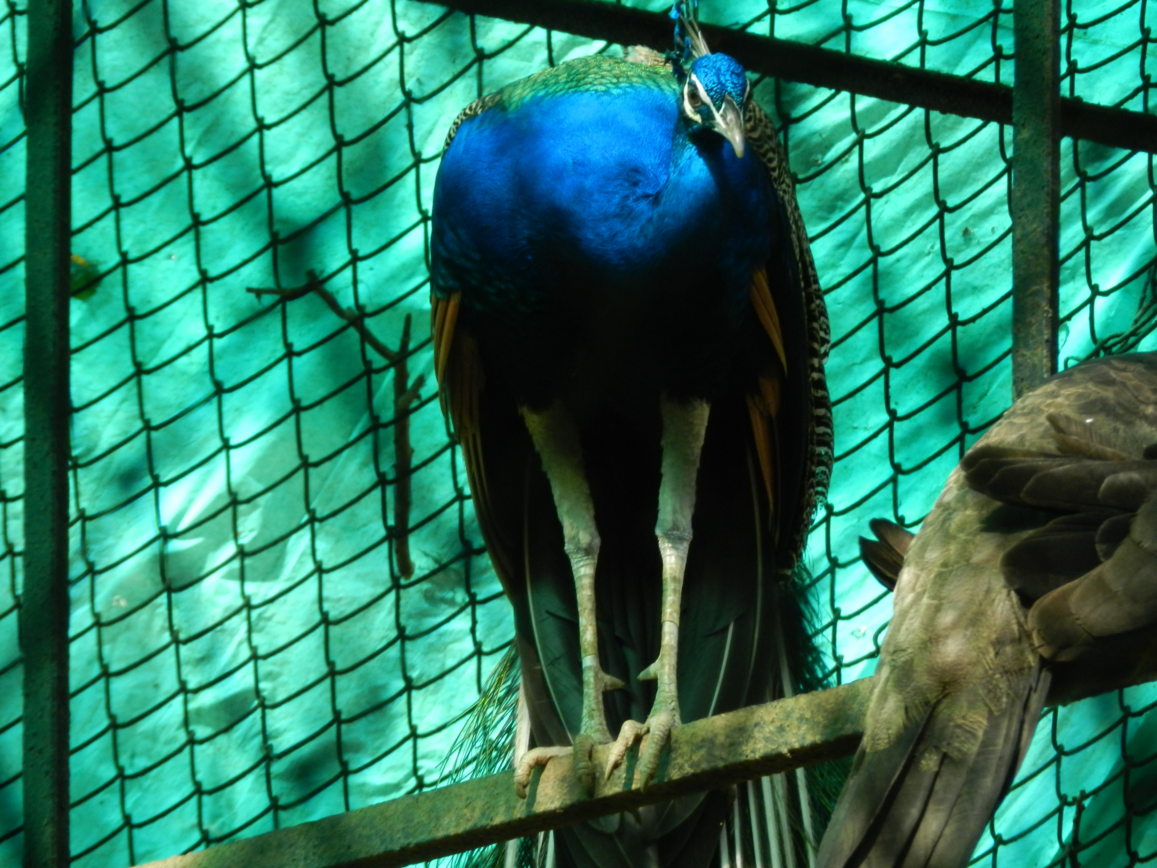 Peacock found in pilikula zoo, mangalore.